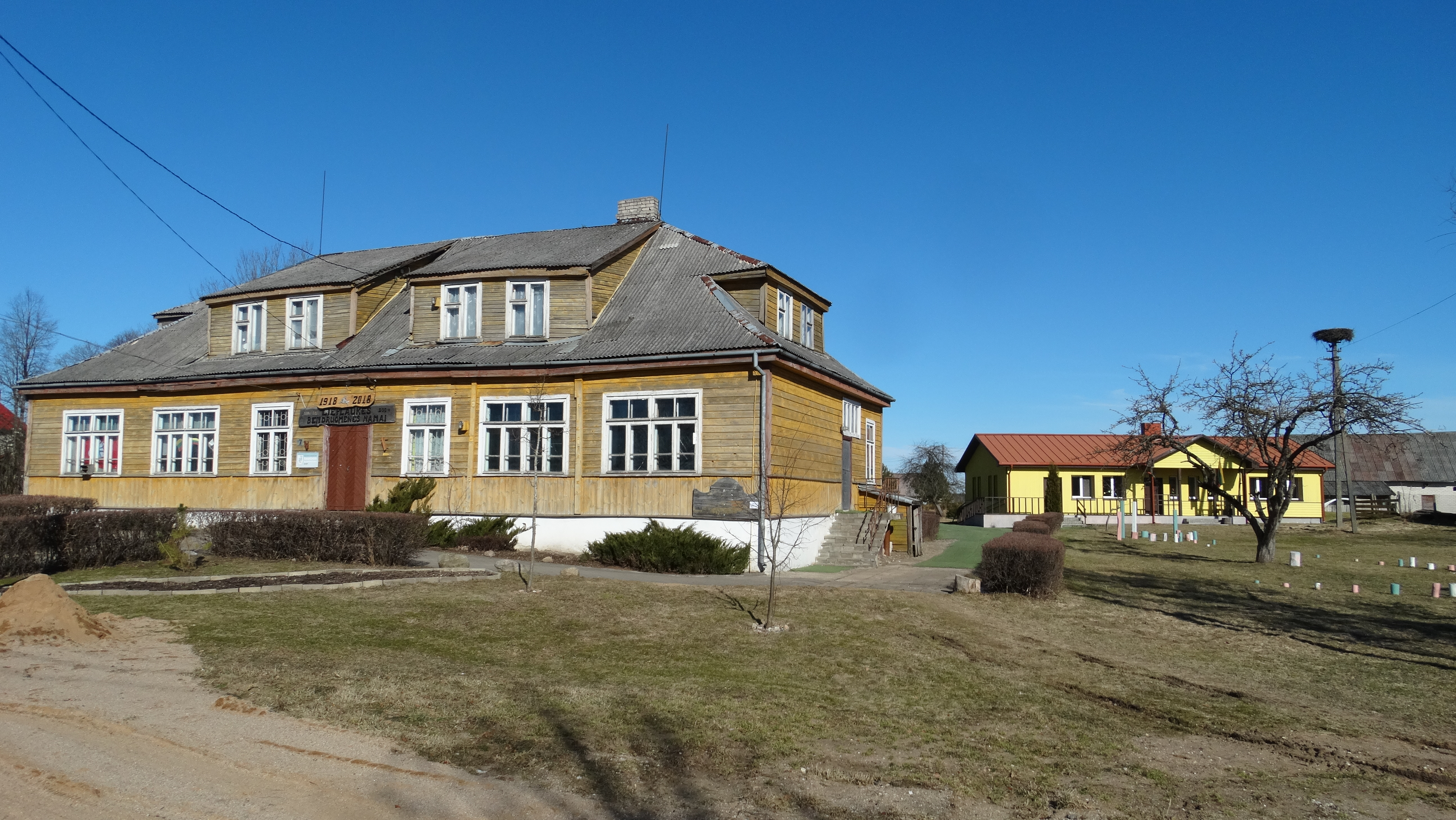 Lieplaukė, school, Telšiai district, Lithuania